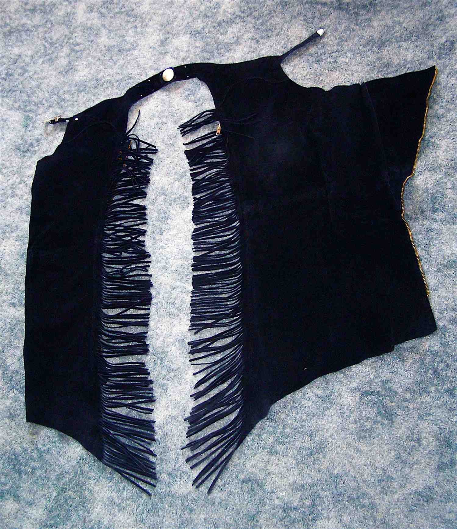 A pair of western show chaps